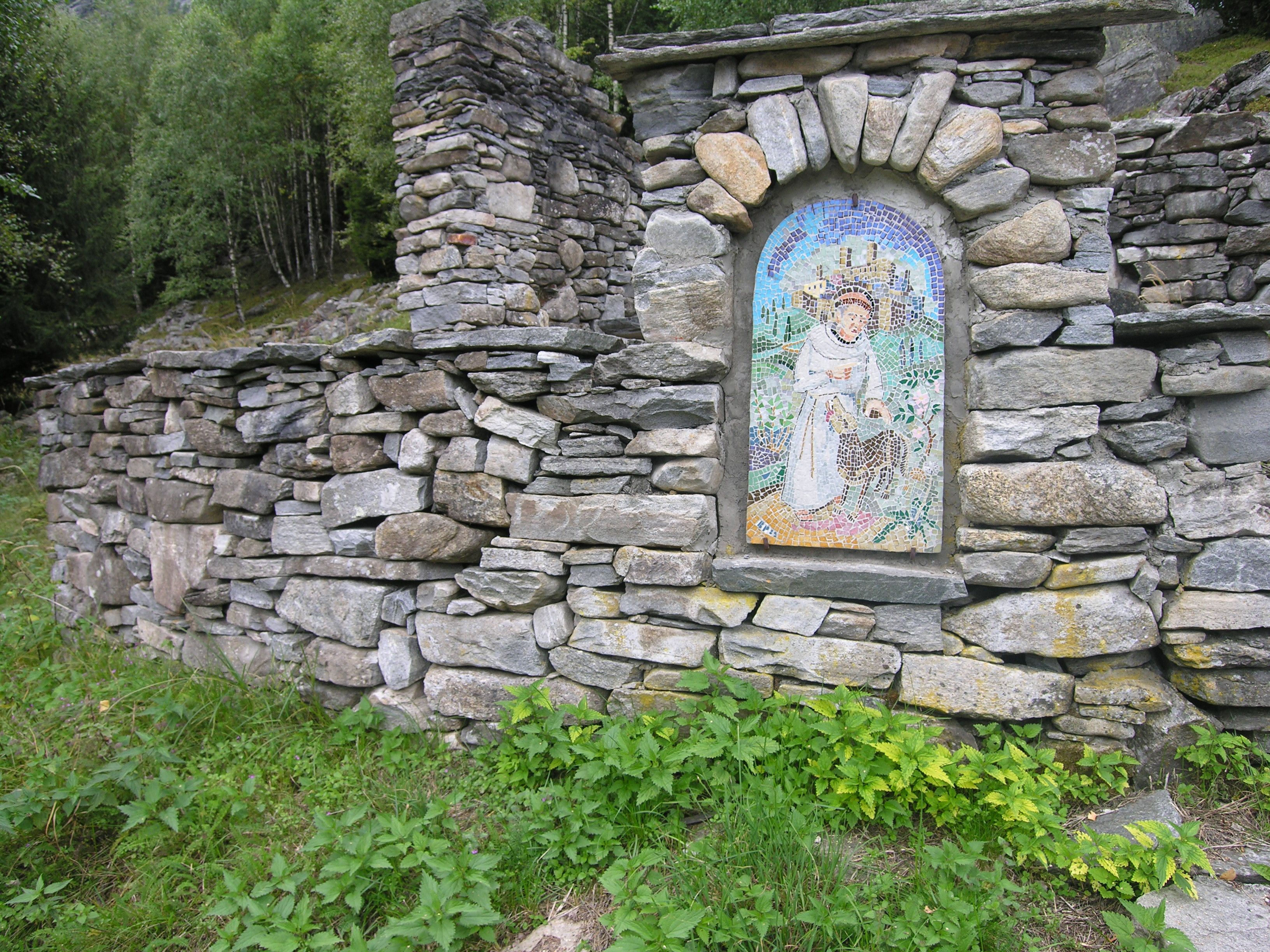 Embedded art in the dry stone wall